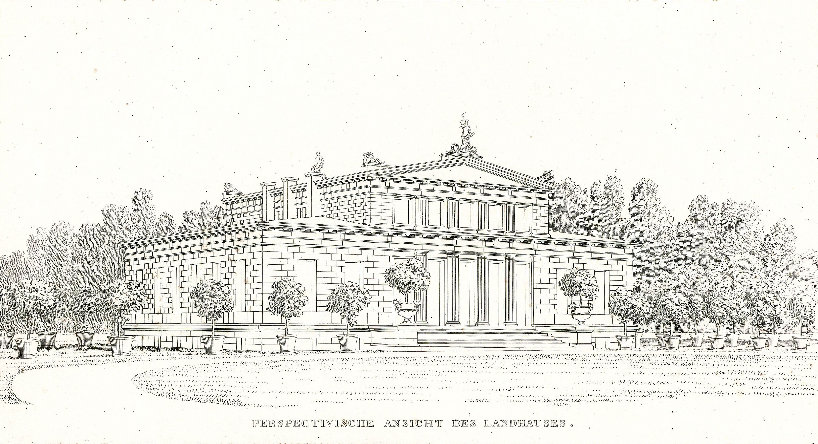 View of Landhaus Behrend (Schinkel, 1822)